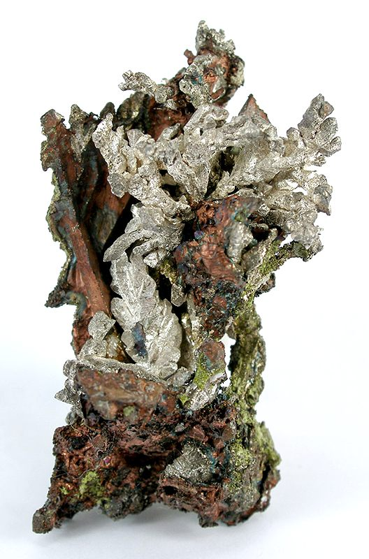 Copper, Silver Locality: Wolverine Mine, Wolverine, Houghton County, Michigan, USA (Locality at ) Size: miniature, 5.6 x 2.8 x 3.2 cm Silver within Copper I have never seen a silver/copper combo specimen quite like this. I have seen halfbreeds, and I have seen sharp silver on lumpy copper and vice versa, but not a sharply crystallized silver cluster WITHIN copper that is also sharply crystallized. In person, this piece is more 3-dimensional and it is simply exquisite. In person, there is relief between every silver crystal you see, and the backdrop of crystalized copper. It is mesmerizing. An exchange out of the collection of the Seaman Museum, the USA's finest repository of copper country specimens...but more notably also from their core collection, seldom traded or deaccessioned: that of mine captain John Reeder. Competition quality, at every level. ex. Seaman Mineralogical Museum (John T. Reeder Collection)